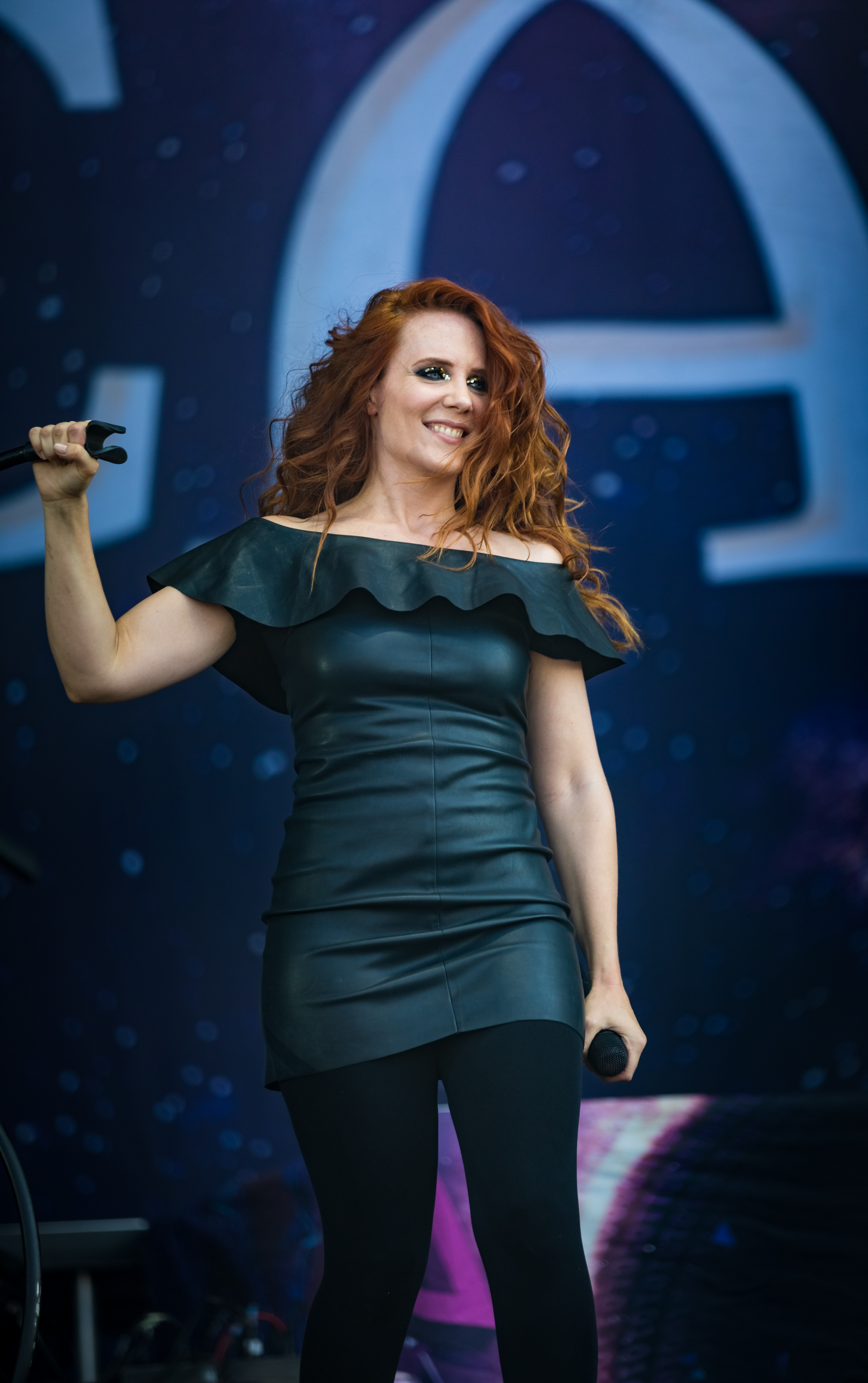 Epica - Wacken Open Air 2018